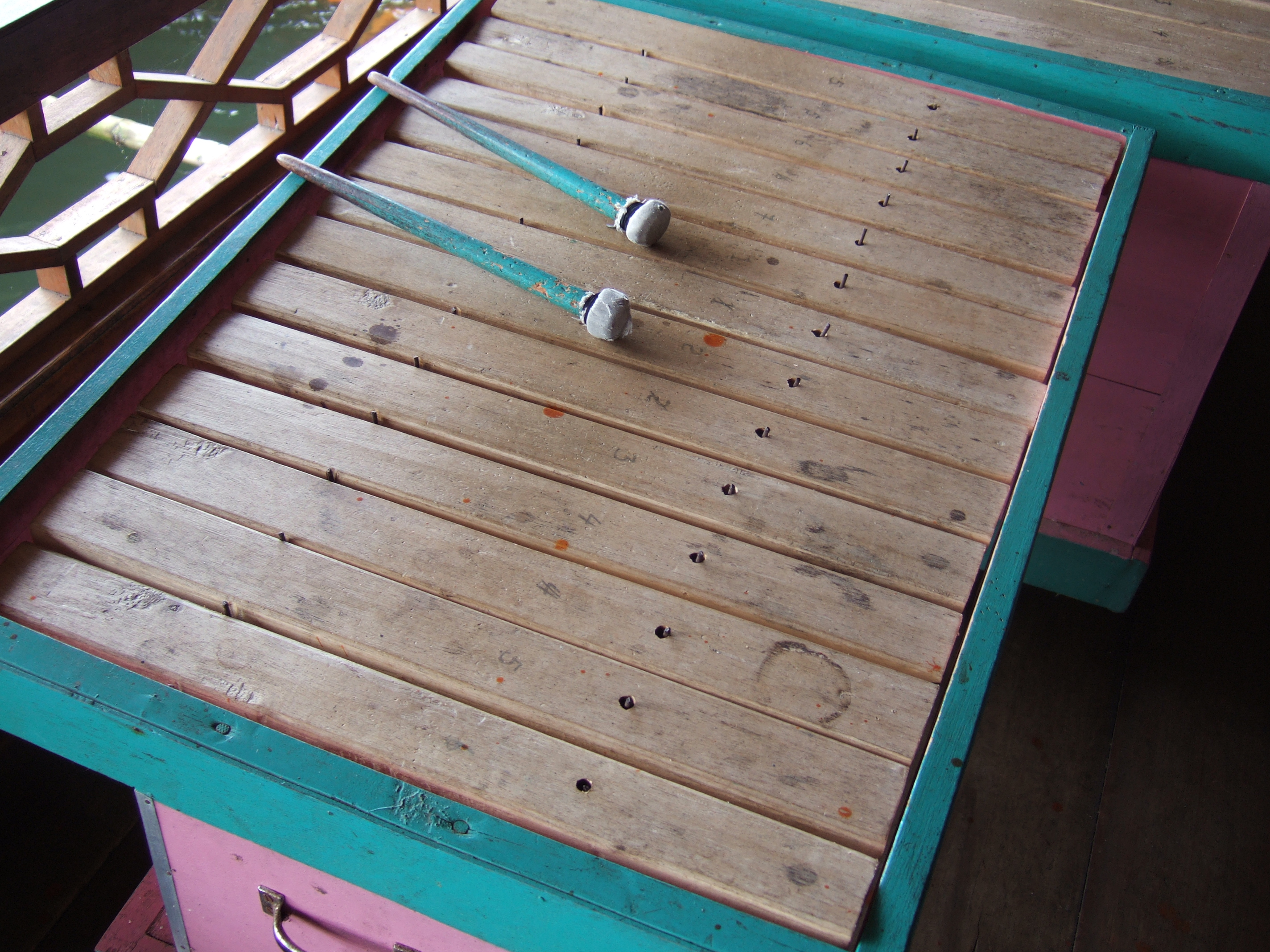 Kolintang. North Sulawesi, Indonesia